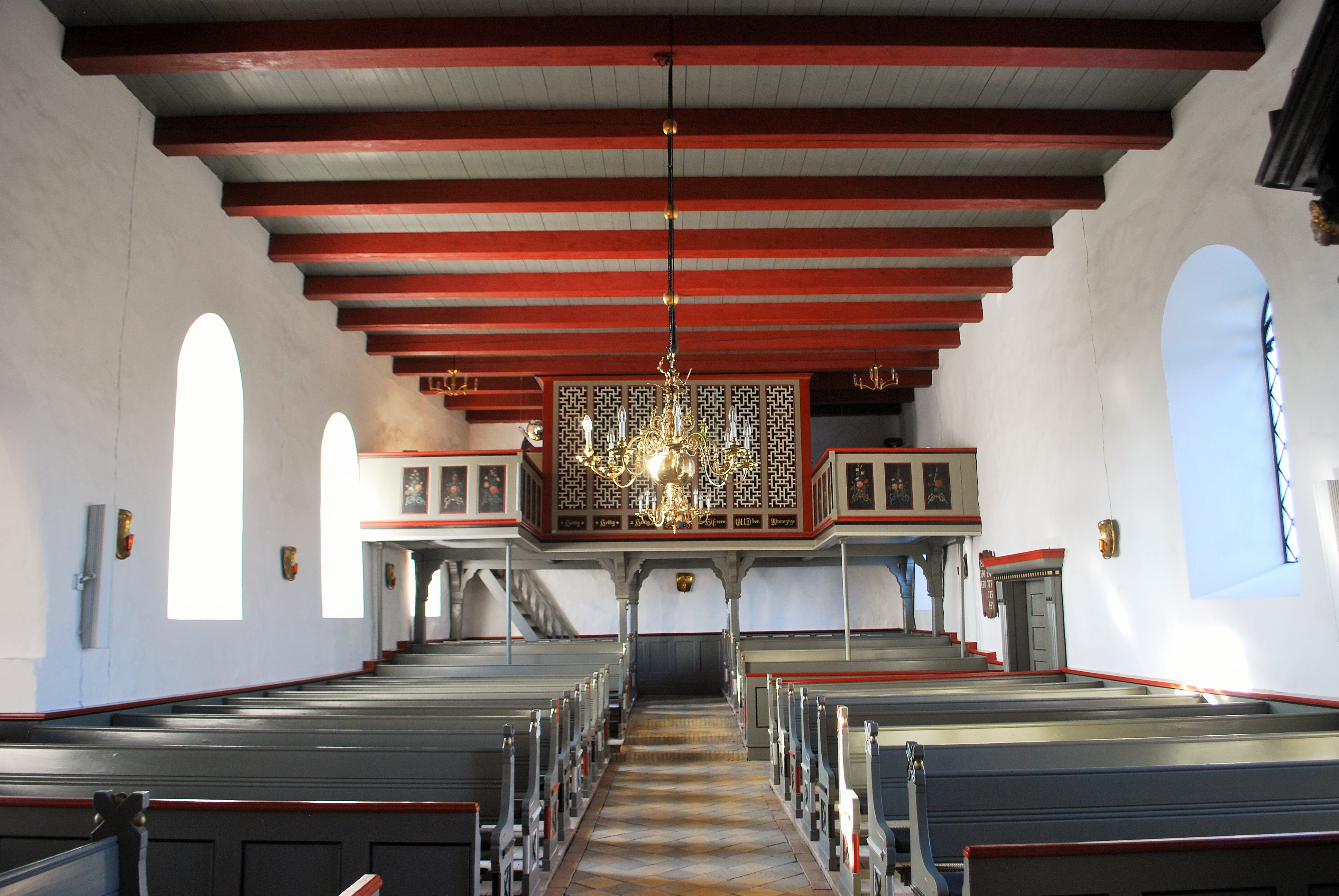 Church of Varnæs, Sundeved, Denmark